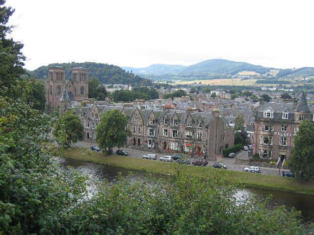 Inverness Cathedral and the River Ness from the Castle with Dunain Hill top right.